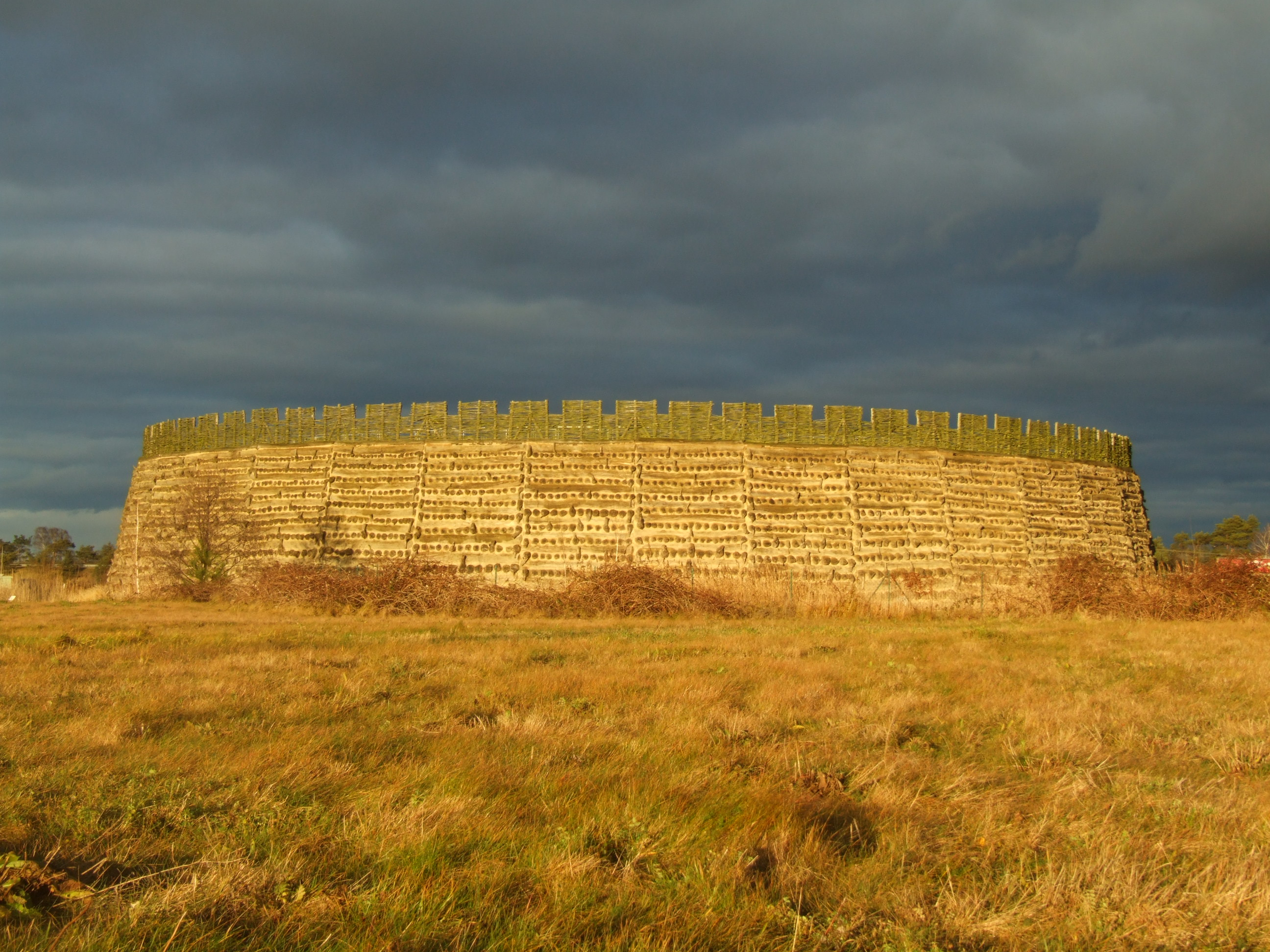 Slavic refuge castle Raddusch (Raduš) in the evening, Germany